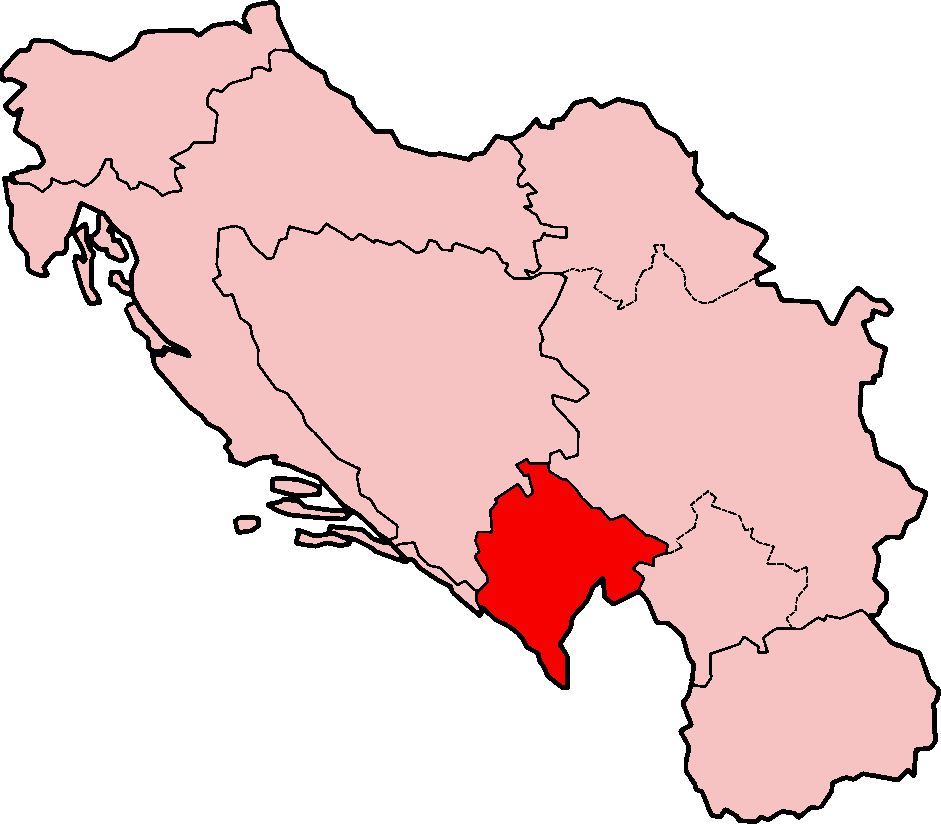 Map of Montenegro under the Socialist Federal Republic of Yugoslavia